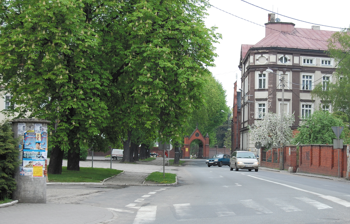 Slowackiego street in Grodkow